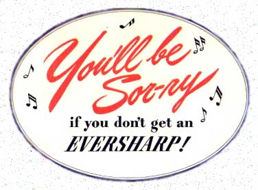 Eversharp